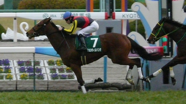 Gentildonna20120108(2)